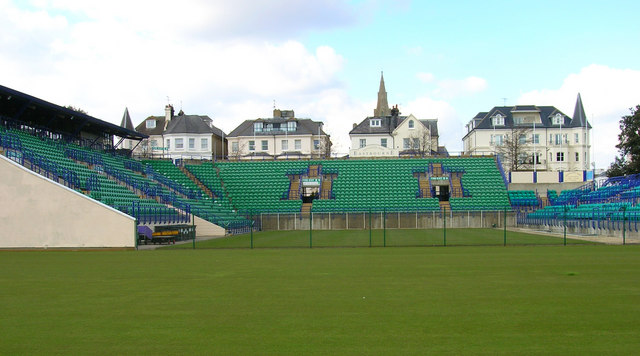 Devonshire Park Tennis Court. Home to a pre-Wimbledon women's tennis tournament. This is the centre court, number one court is to the left of the main stand.